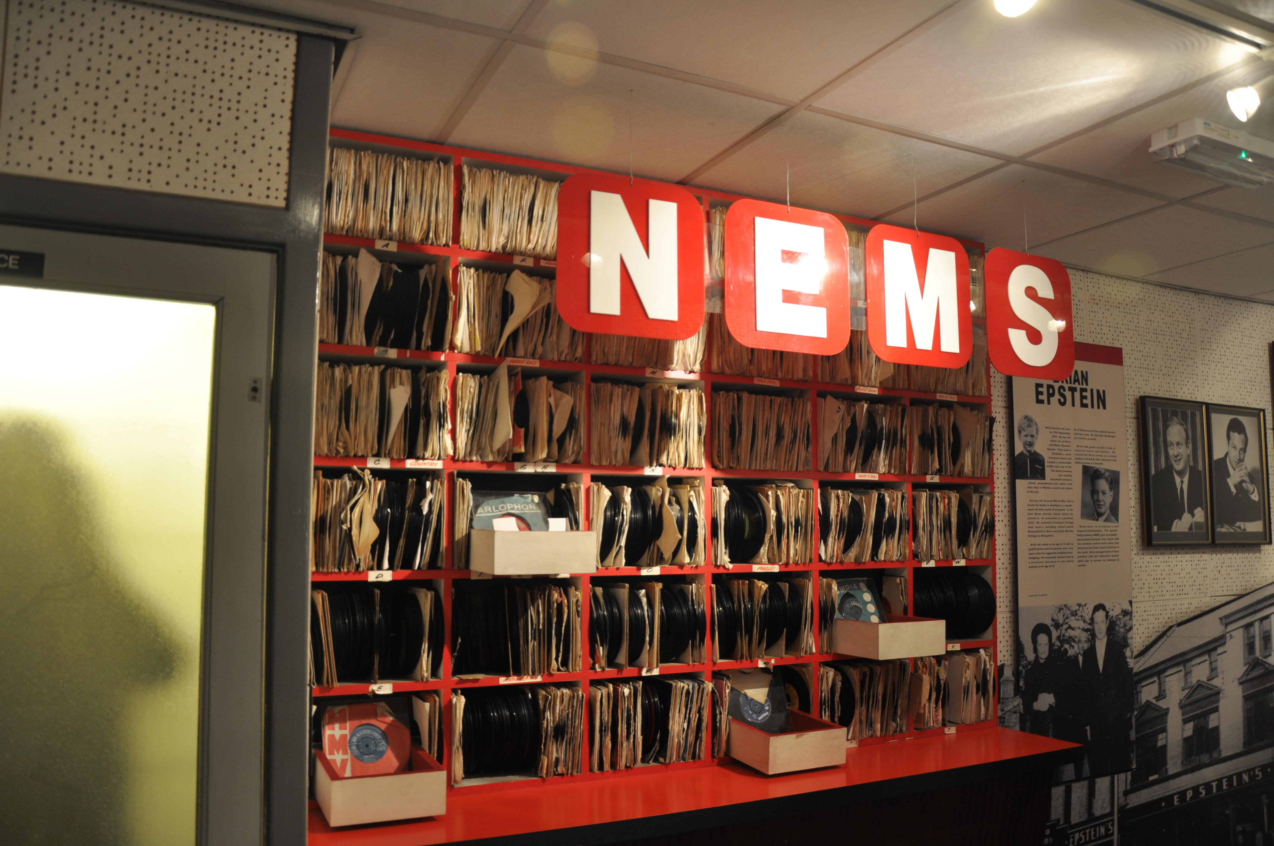 Brian Epstein's North End Music Stores (NEMS) replica, The Beatles Story